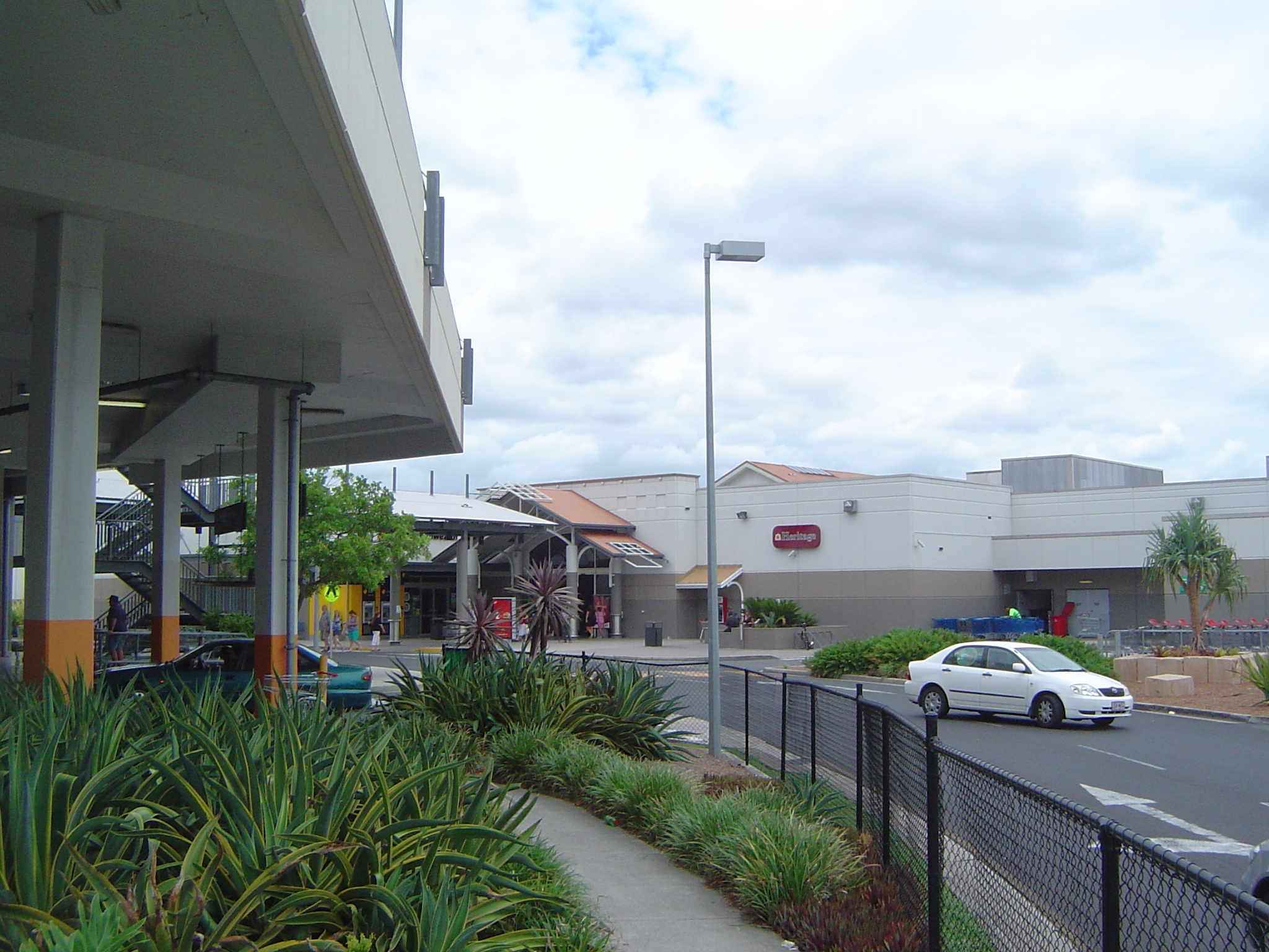 Photo of south east entrance to Browns Plains Plaza, Browns Plains, Logan City, Queensland, Australia.